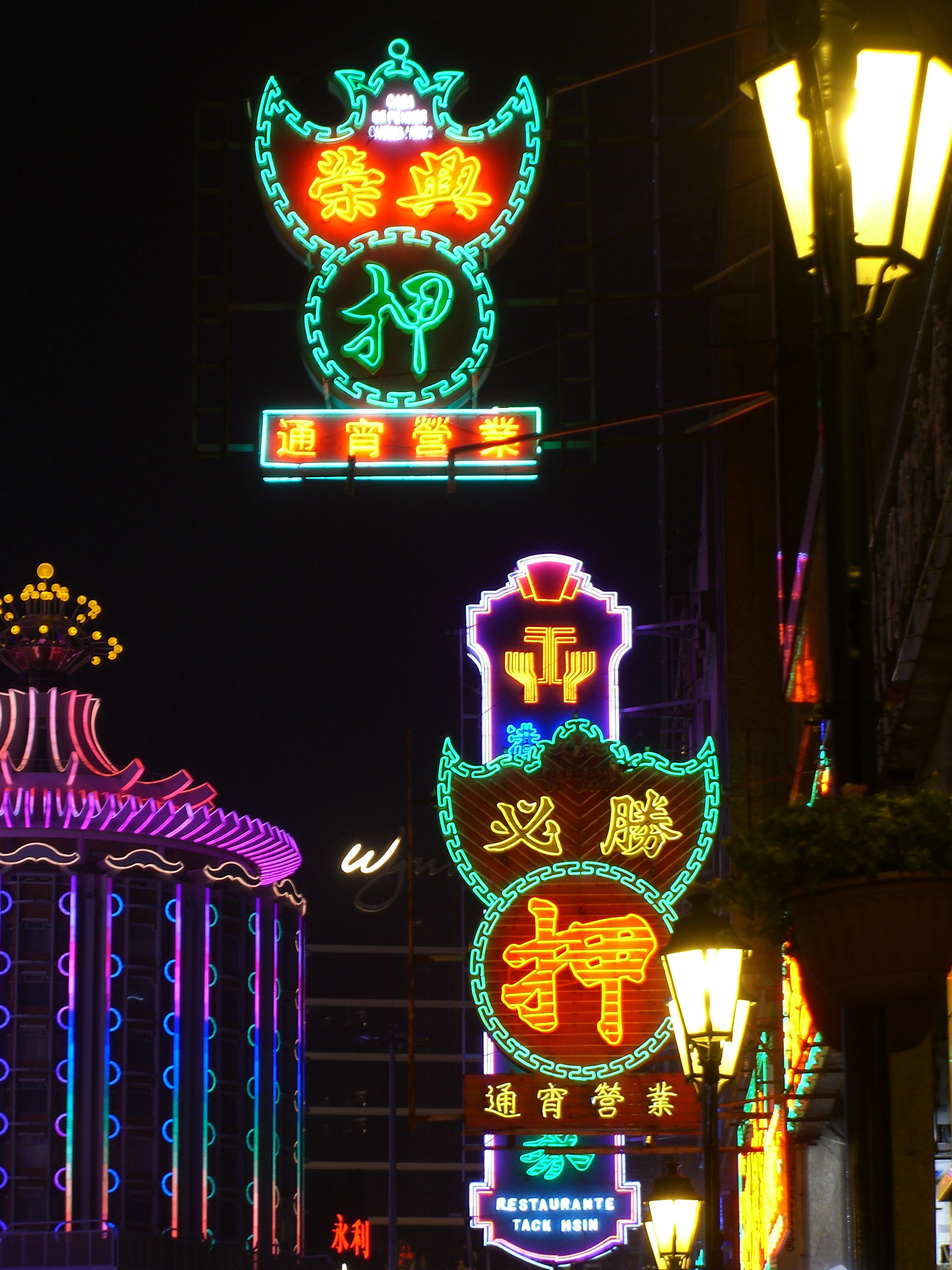 Macau Pawn Shops